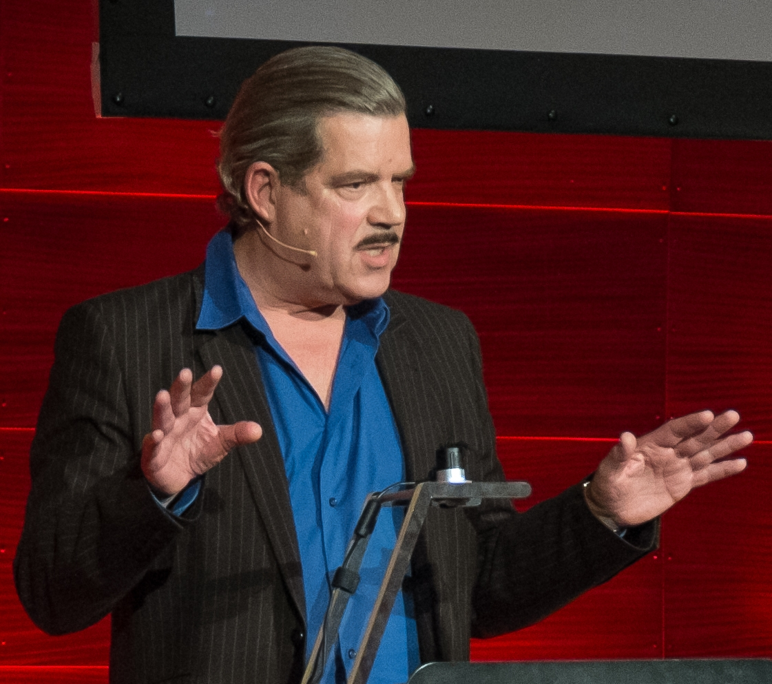 Boris Blank at TEDx Hamburg, June 4, 2013